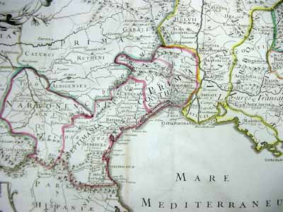 Map of the Volcae territory surrounding the Gulf of Lion